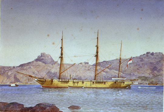 HMS Icarus by William Frederick Mitchell